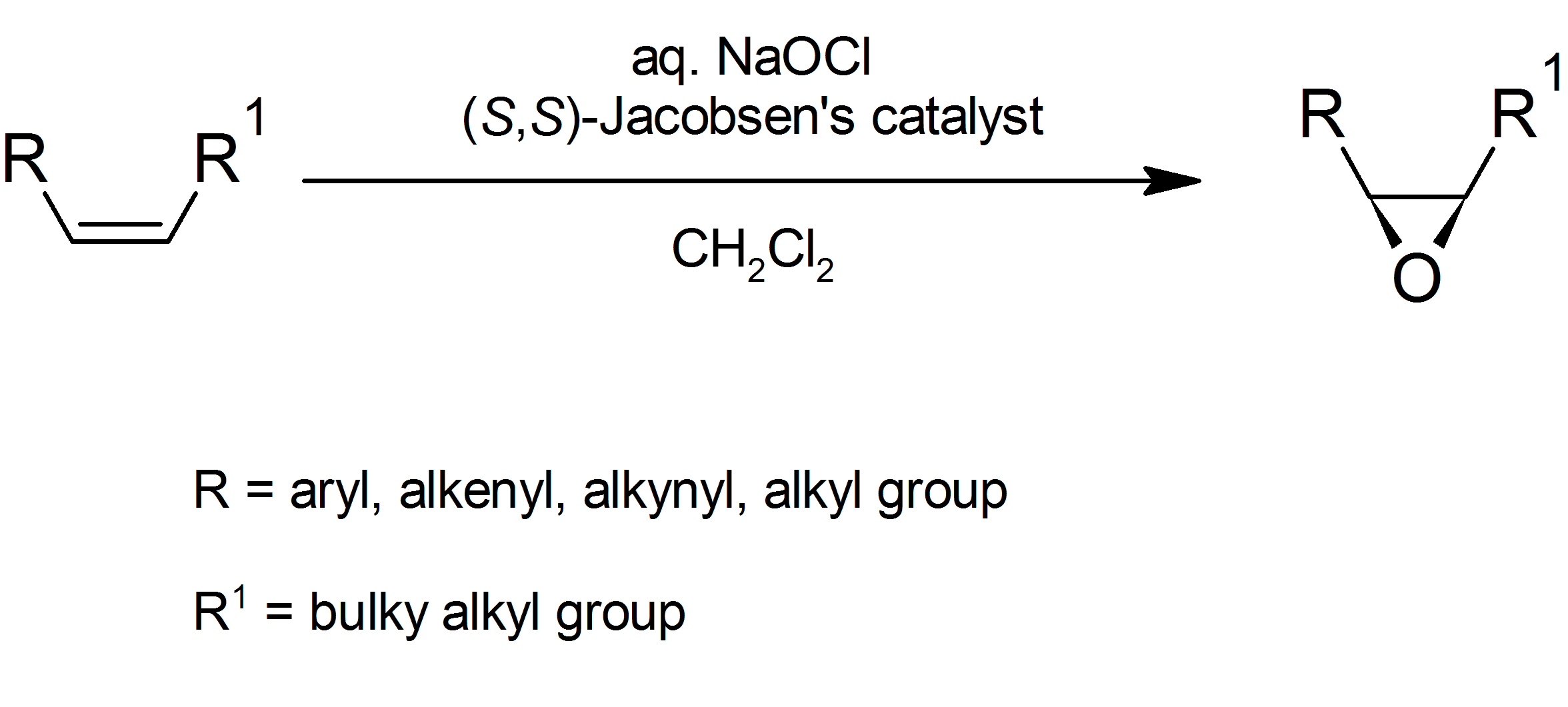 The general Jacobsen epoxidation Adapted from